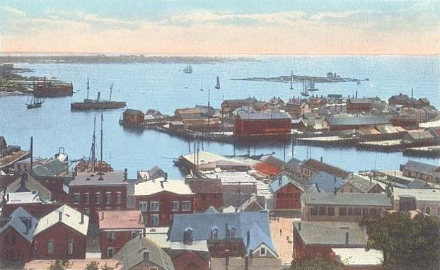 Harbor View & Ten Pound Island Light, Gloucester, MA; from a c. 1915 postcard.